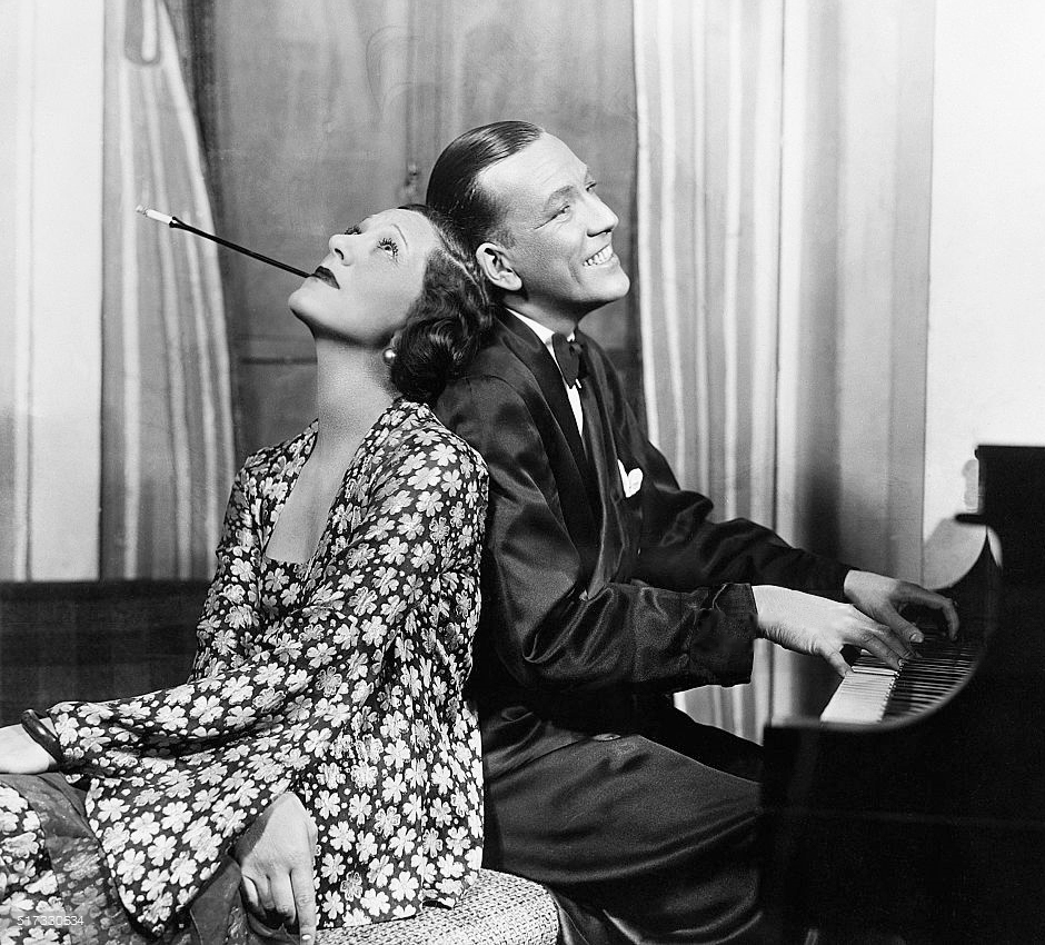 Promotional photograph of Gertrude Lawrence and Noel Coward in the Broadway production of Private Lives